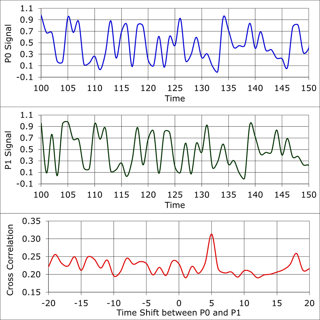 P0 is an examples of a wide-band, time series signal. The time units are arbitrary. It was produced with a random number generator and a smoothing filter. P1 is P0 shifted to the Right by 5. Bottom graph is the cross correlation of P0 and P1 showing the max at T = 5.